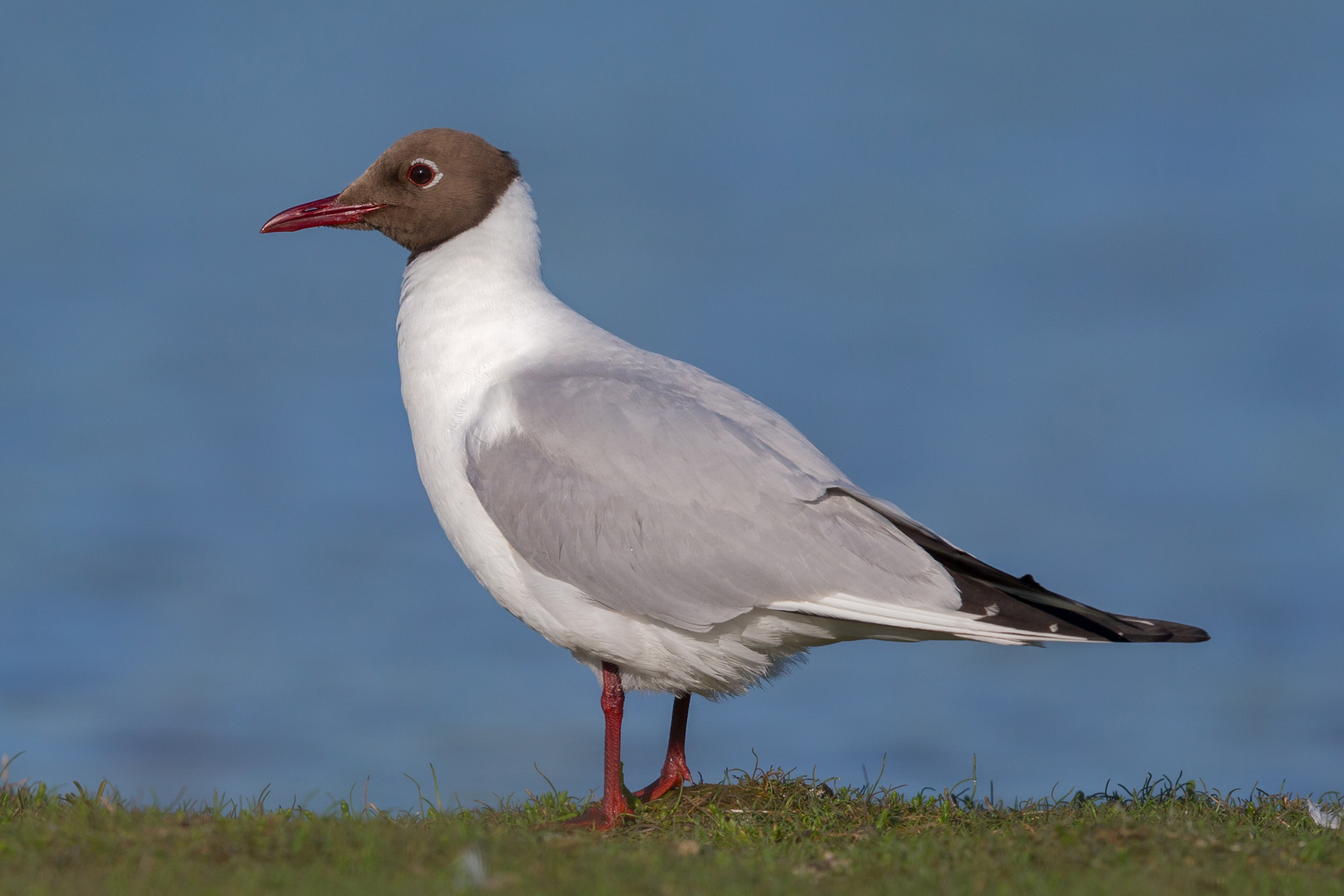 Black-headed gull